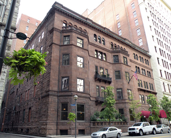 Picture of the Duquesne Club Building, located at 325 Sixth Avenue in Downtown Pittsburgh, Pennsylvania, on September 18, 2010. Built in 1887, architects Longfellow, Alden & Harlow, it is on the List of Pittsburgh History and Landmarks Foundation Historic Landmarks.